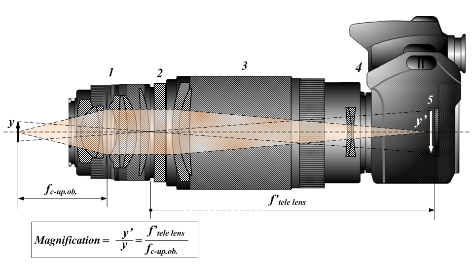 Optical scheme of macro photography using reversed-lens and telephoto lens. 1 - Reversed lens. 2 - Reversed lens adapter ring. 3 - Telephoto or zoom telephoto lens. 4 - Camera. 5 - Film or sensor. y - Image high. y'- Film or sensor high.